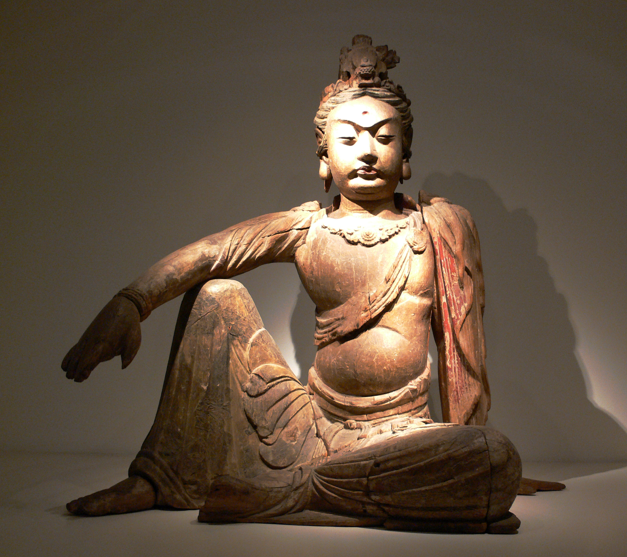 Guan Yin, wooden sculpture, China, Song Dynasty, 12th century AD; Ethnological Museum, Berlin, Germany